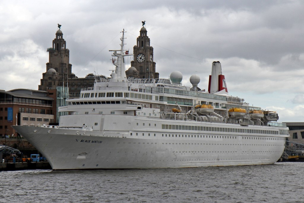 Black Watch cruise ship, Liverpool Cruise Terminal